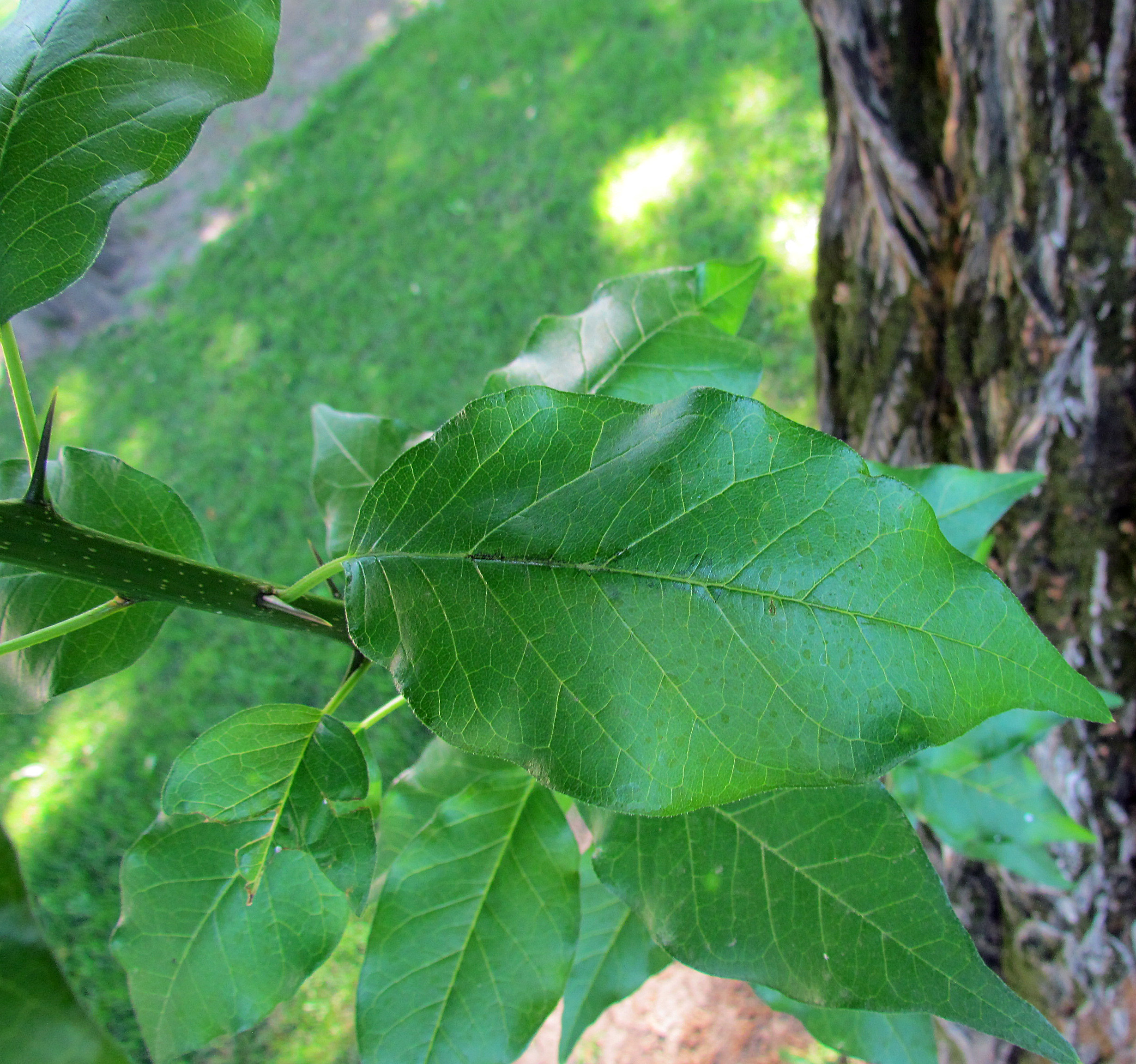 Maclura pomifera leaves.